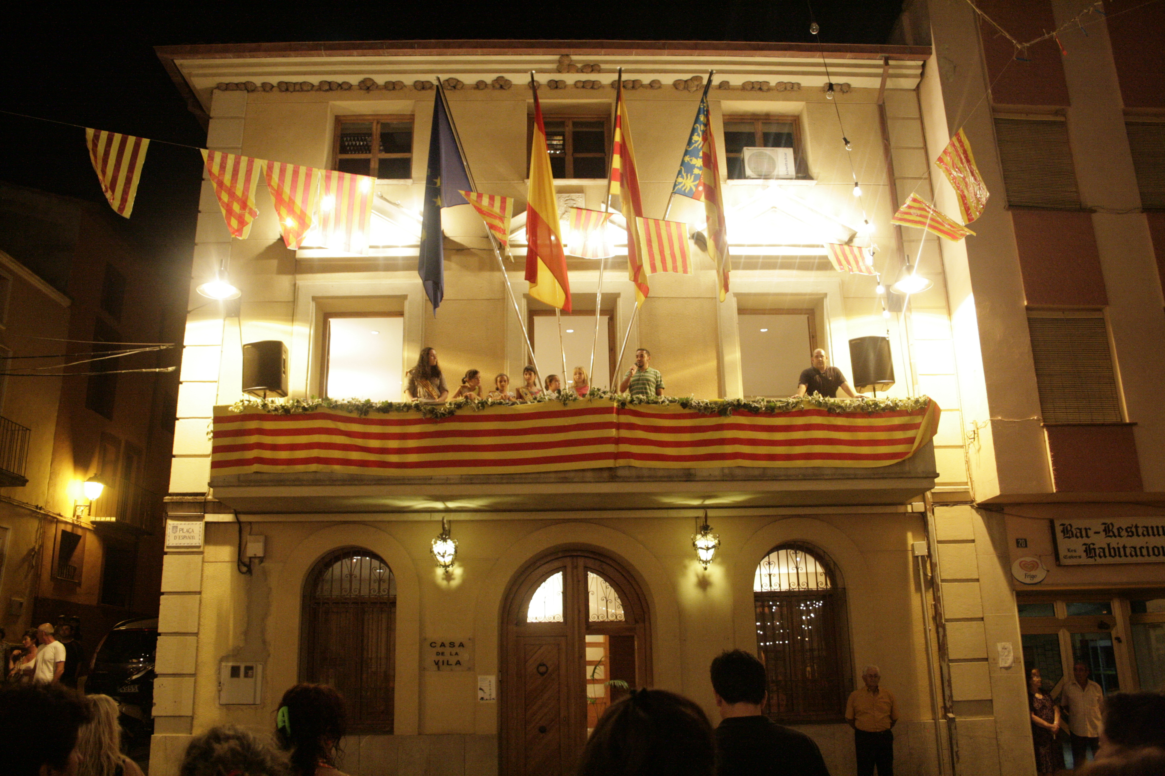 Cuevas de Vinromá's City Council